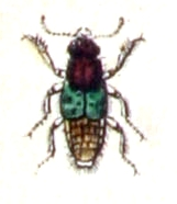 Abemus chloropterus, from Calwer's Käferbuch, Table 11, Picture 27. Taxonomy was updated to 2008, using mostly the sites Fauna Europaea and BioLib. Please contact Sarefo if the determination is wrong!